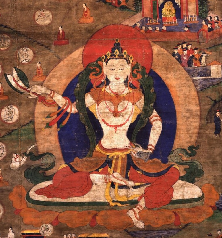 Machik Labdron b.1055 - d.1149